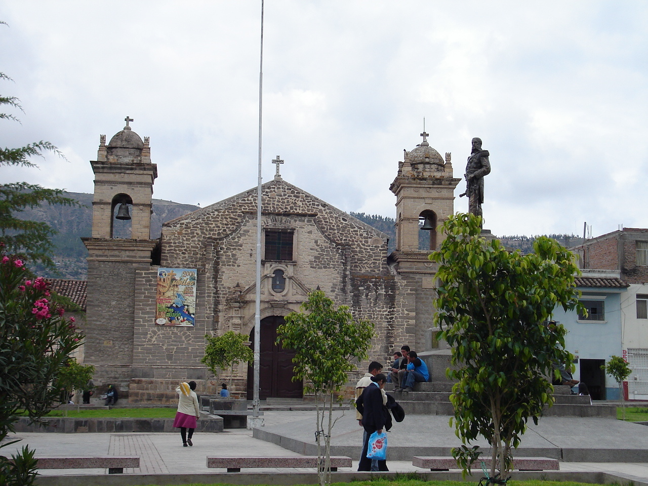 Photos of Ayacucho taken by E. Zambrano